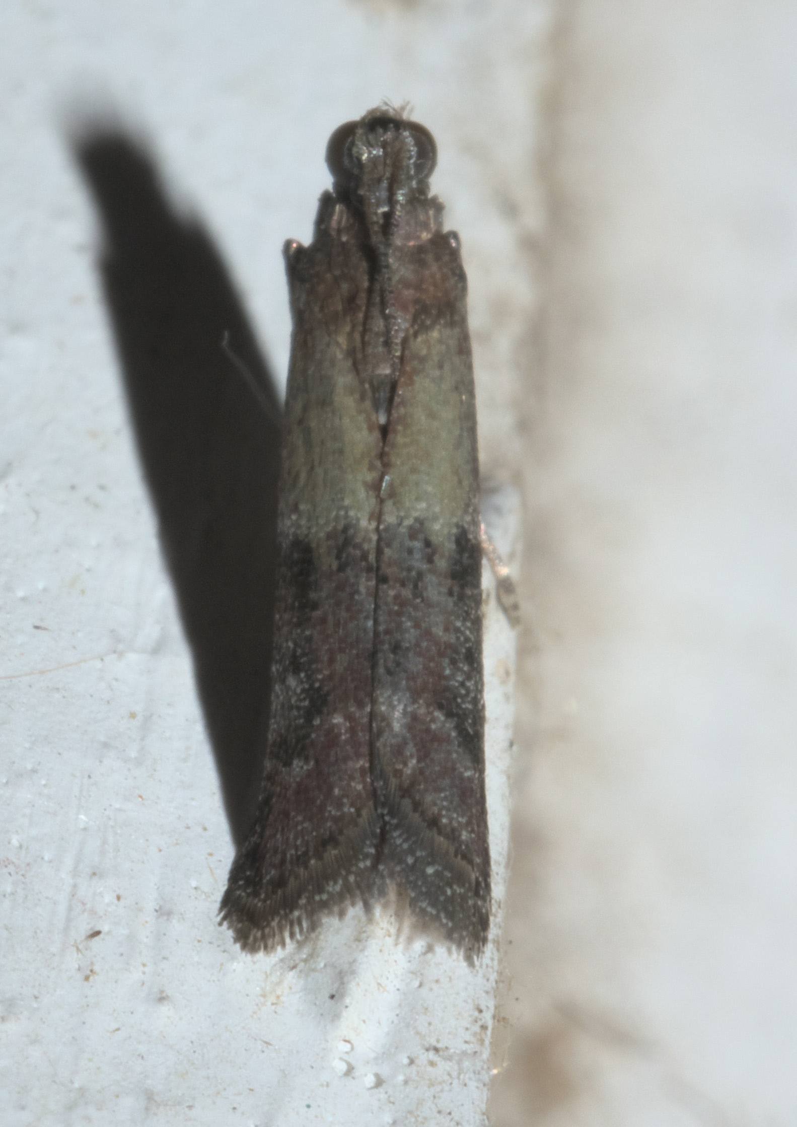 Ephestiodes infimella, Hodges #6001, Size: 6.1 mm, ID Confidence: 84